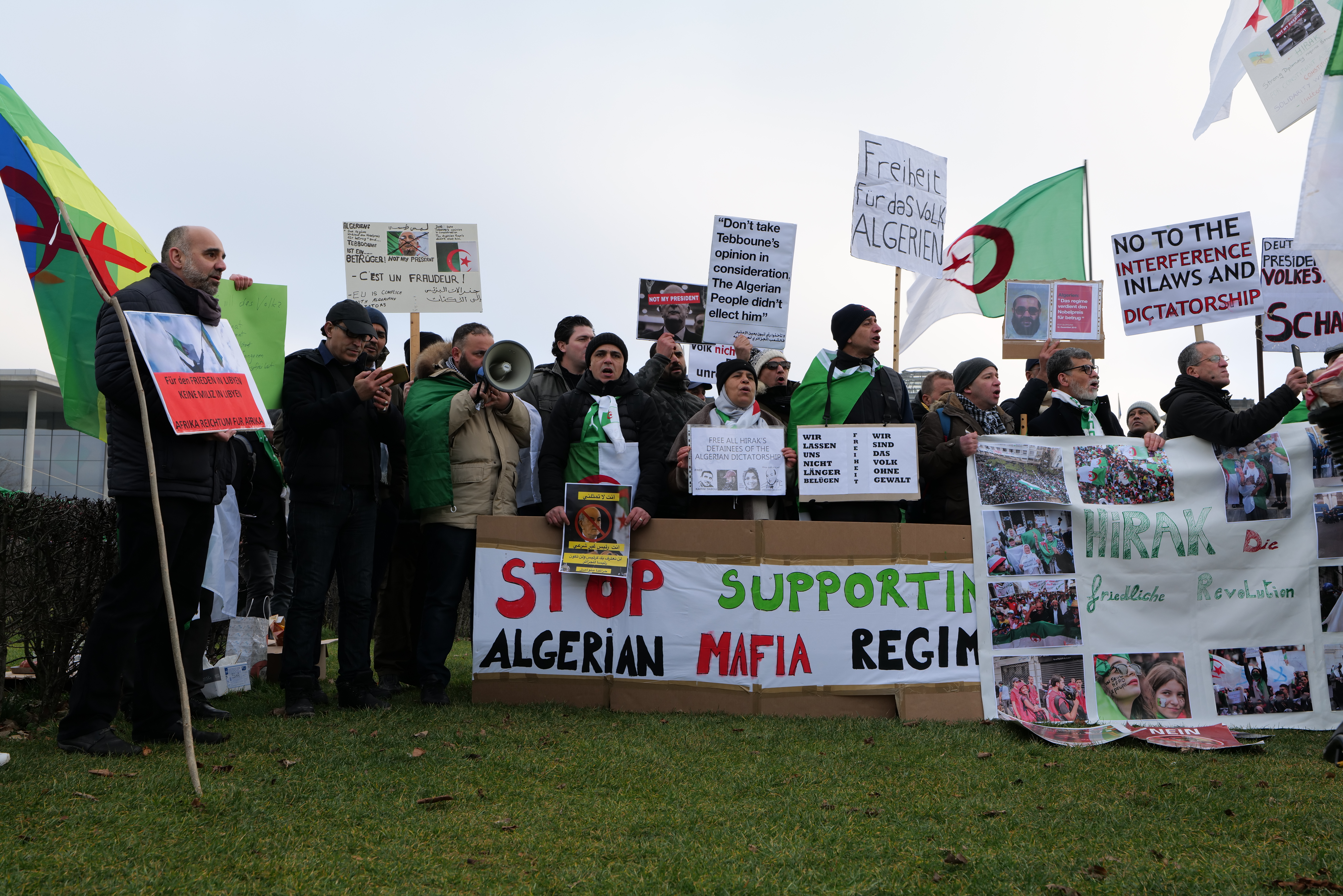 Kurdian community mobilised against Turkish president Erdogan and Berlin's Algerian community mobilised against Algerian President Abdelmadjid Tebboune, who is taking part in the conference on Libya in Berlin.